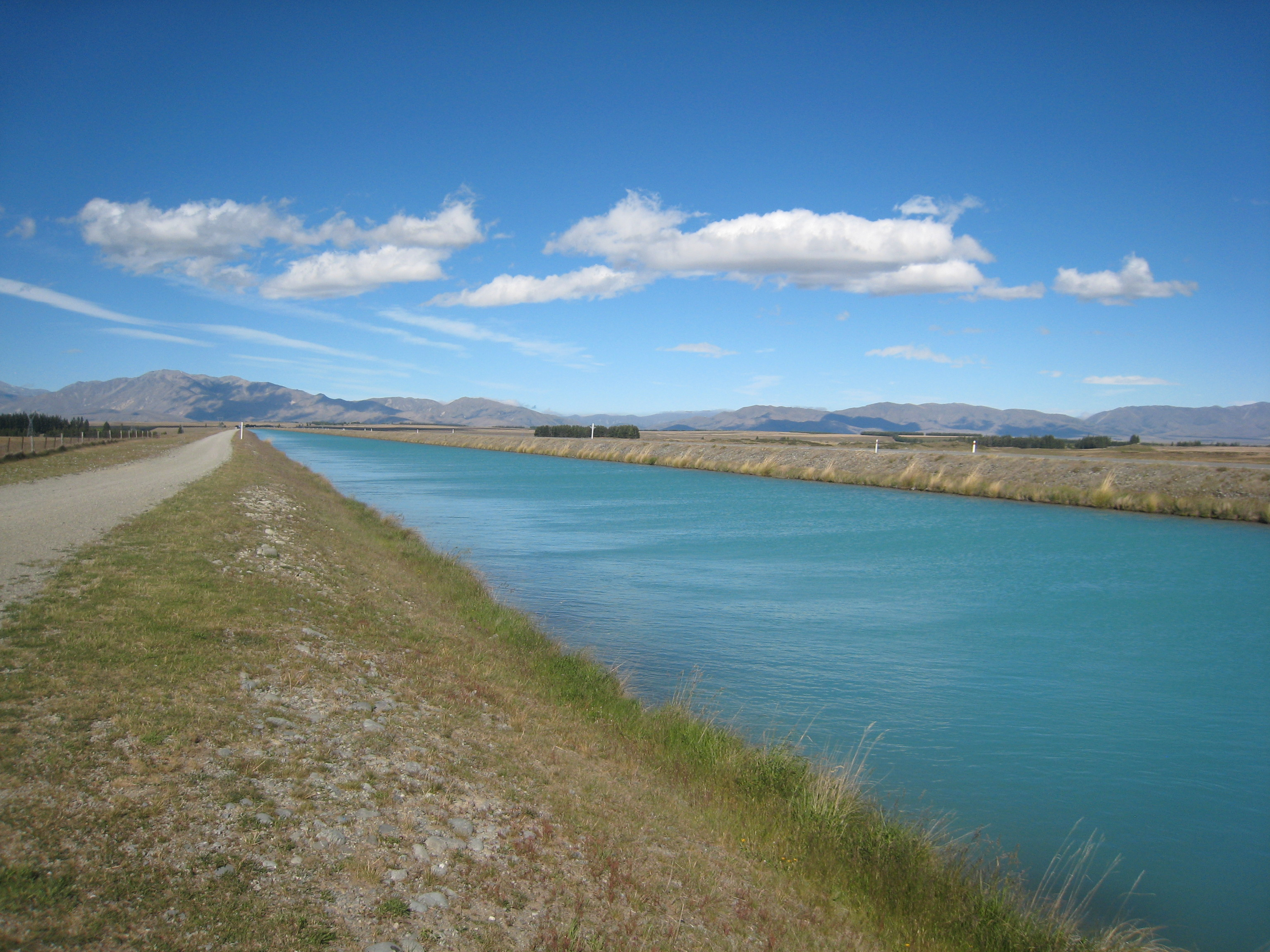 Looking east along the Tekapo-Pukaki hydroelectric canal, Mackenzie Country, Canterbury, New Zealand.